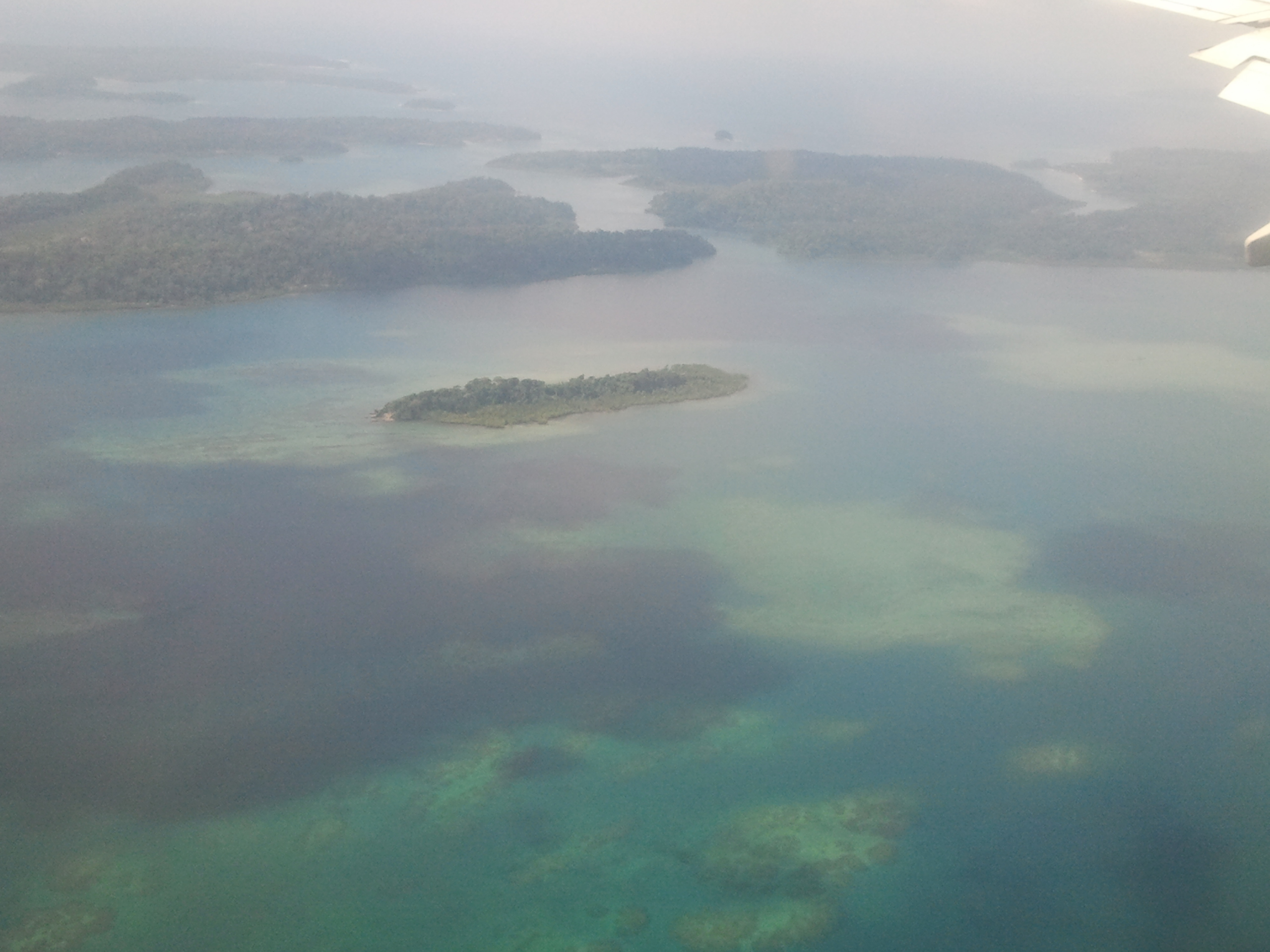 Andaman sea surrounds Andaman and Nicobar group of Islands. There are more than 200 islands in this group. Picture taken from Airplane.